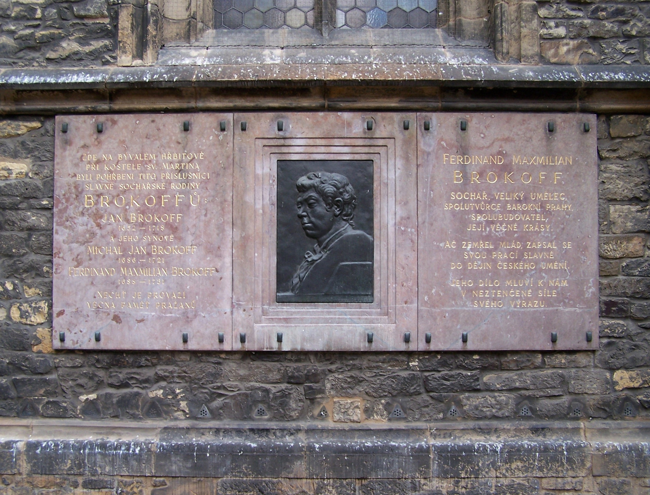 Plaque at St. Martin in the Wall commemorating the Brokoffs, a sculptor family and esp. Ferdinand Maximilian Brokoff in Prague.